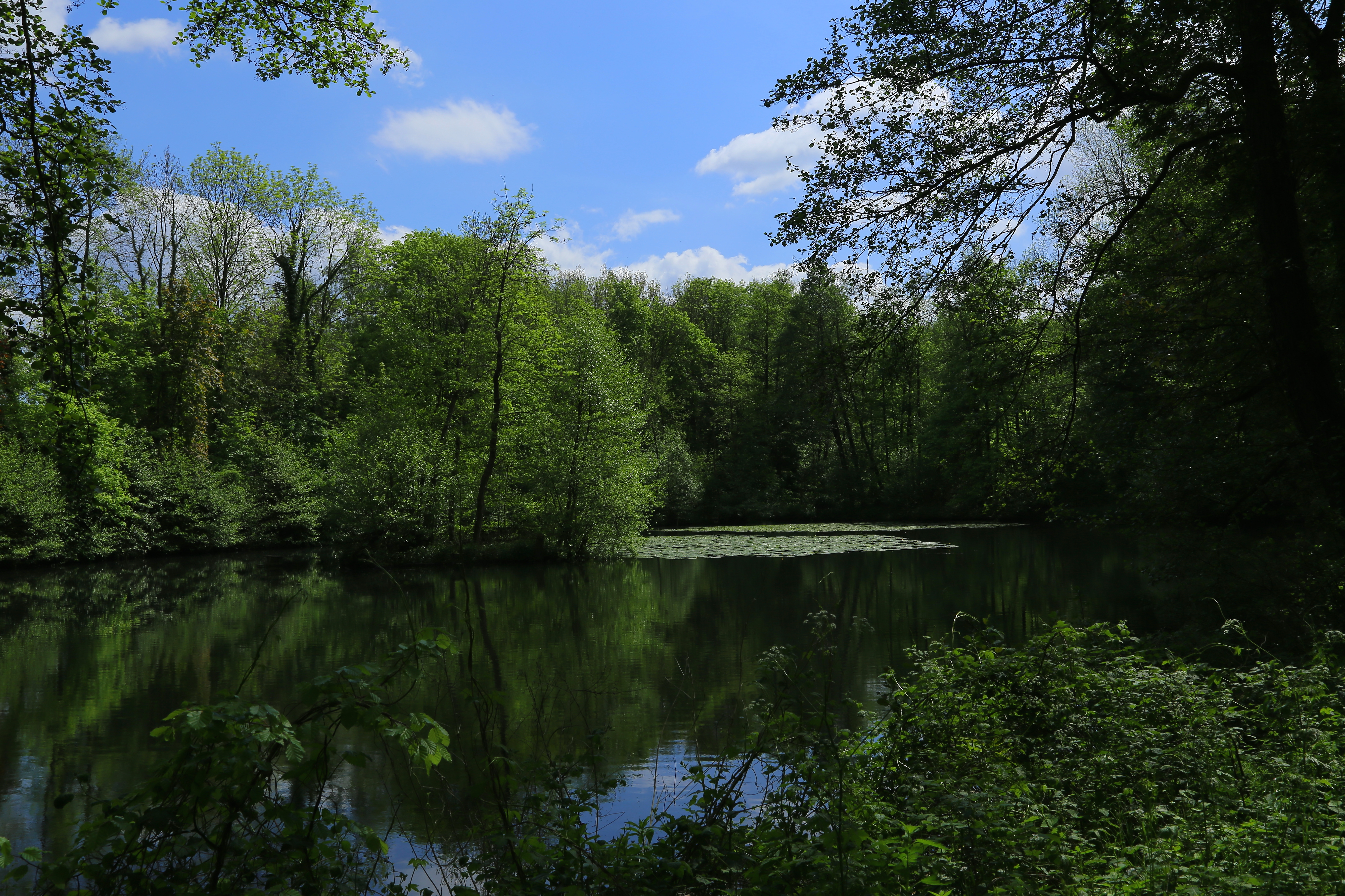 Nature reserve (Naturschutzgebiet) „Talaue Haus Marck“ in Tecklenburg, Kreis Steinfurt, North Rhine-Westphalia, Germany.